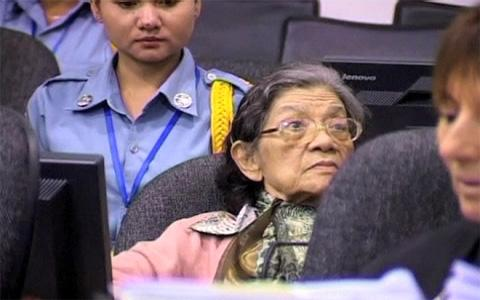 Former Khmer Rouge social affairs minister Ieng Thirith sits at the Extraordinary Chambers in the Courts of Cambodia (ECCC) on the outskirts of Phnom Penh, file photo.